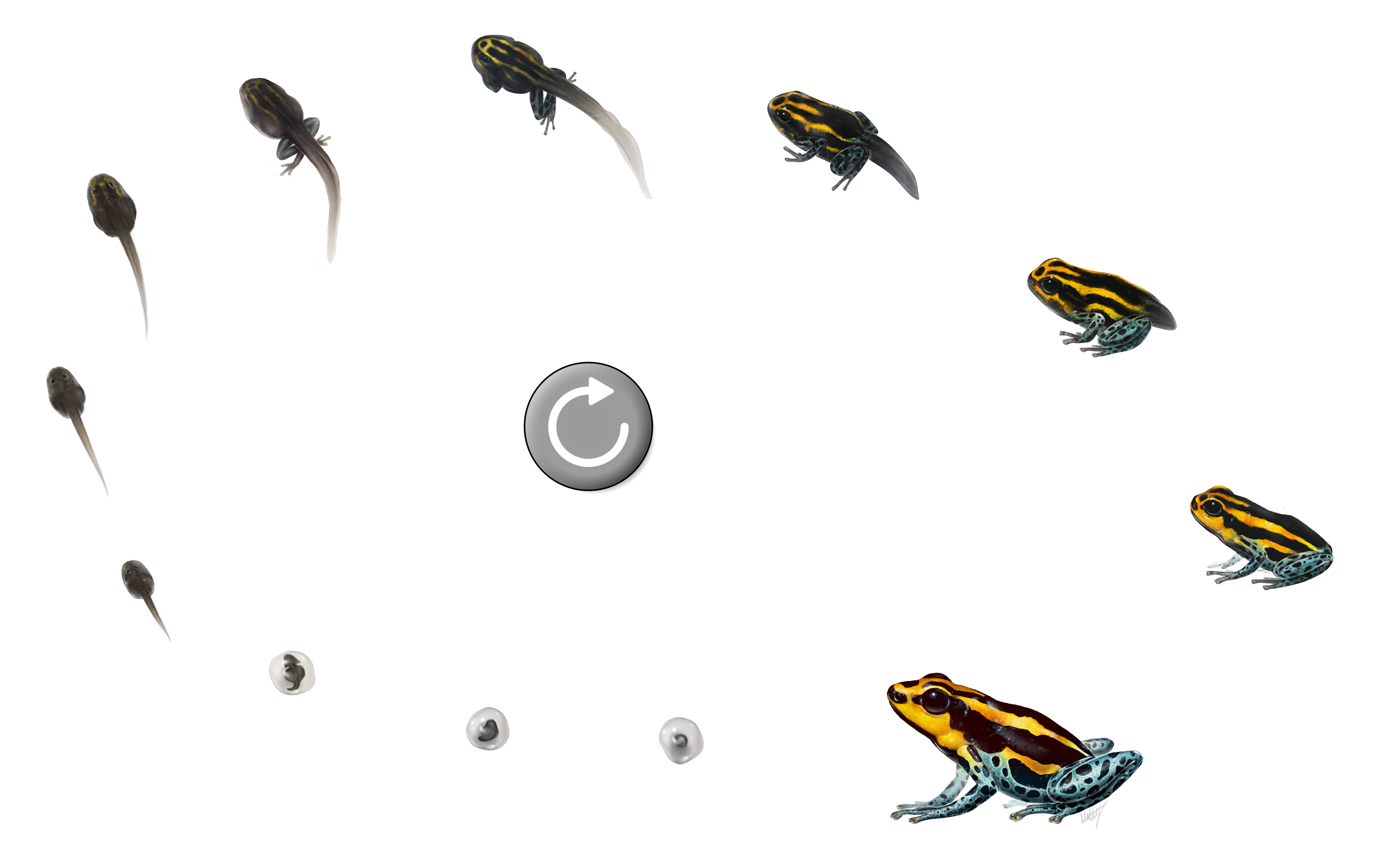 Digital illustration showing thumbnail dartfrog Ranitomeya imitator (Varadero) and its development in life stages. (edited)